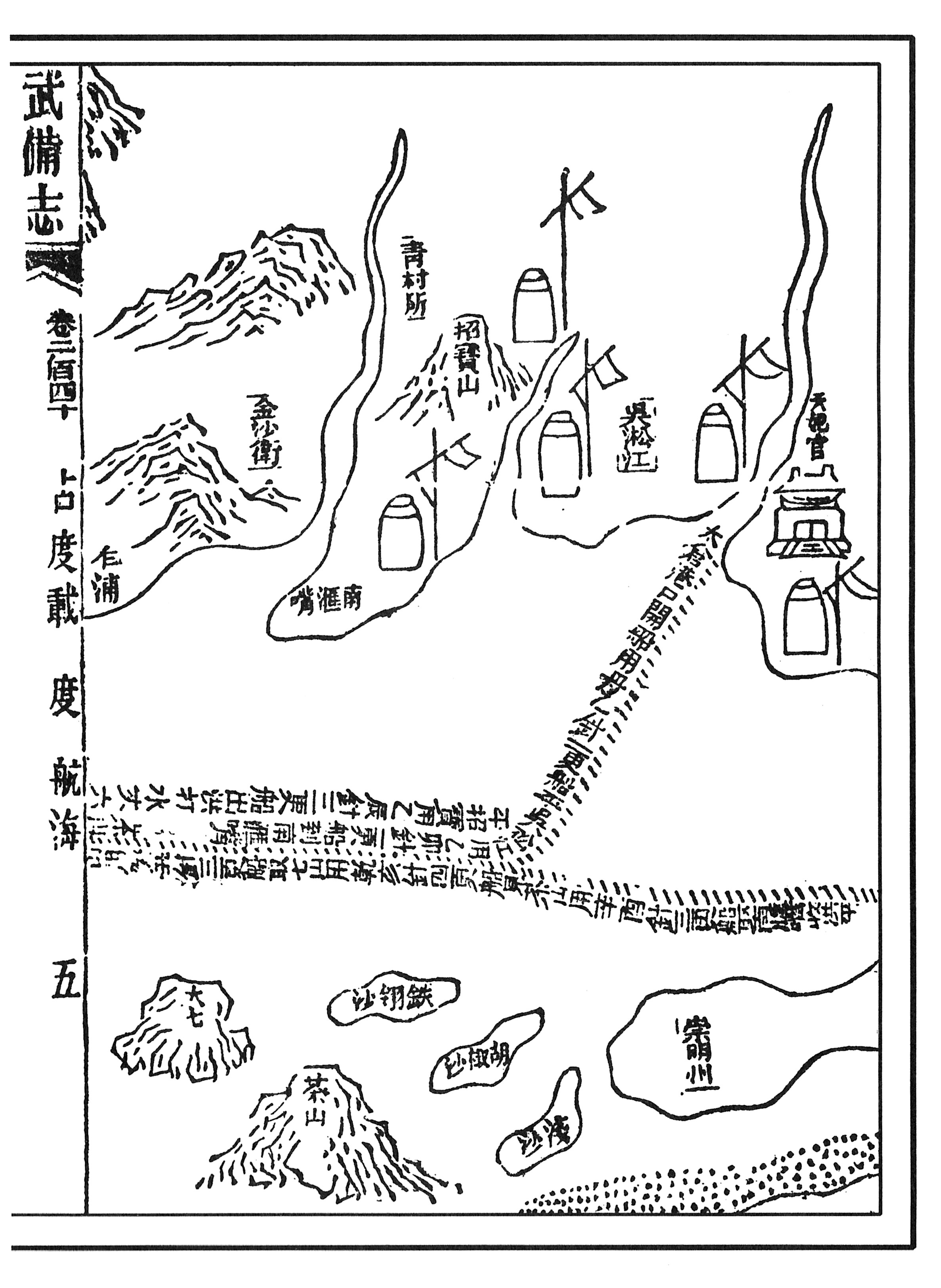 Mao Kun Map No 5